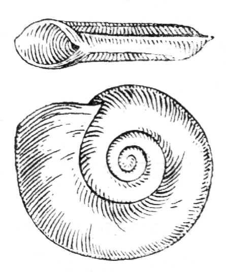 drawing of the shell Planorbis carinatus